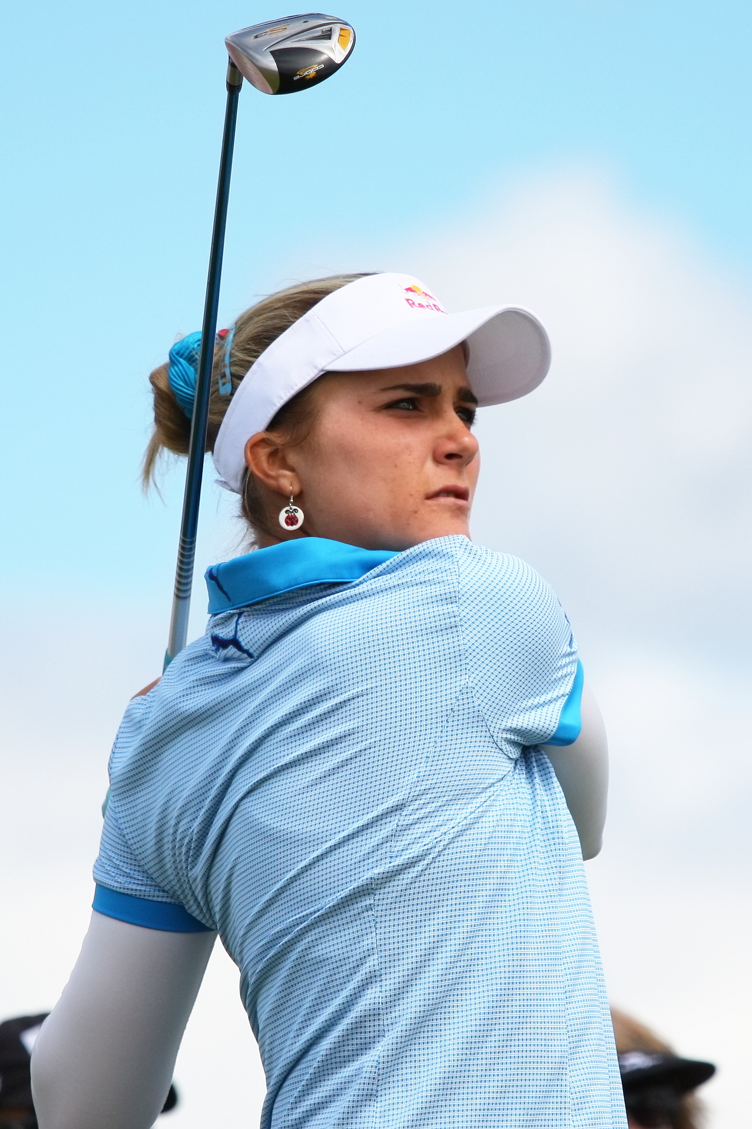 ST ANDREWS, SCOTLAND – JULY 31: Lexi Thompson of USA watches her tee shot on the 15th hole during final practice round of 2013 Ricoh Women's British Open held at St Andrews Old Course on July 31, 2013 in St Andrews, Scotland. (Photo by Wojciech Migda)